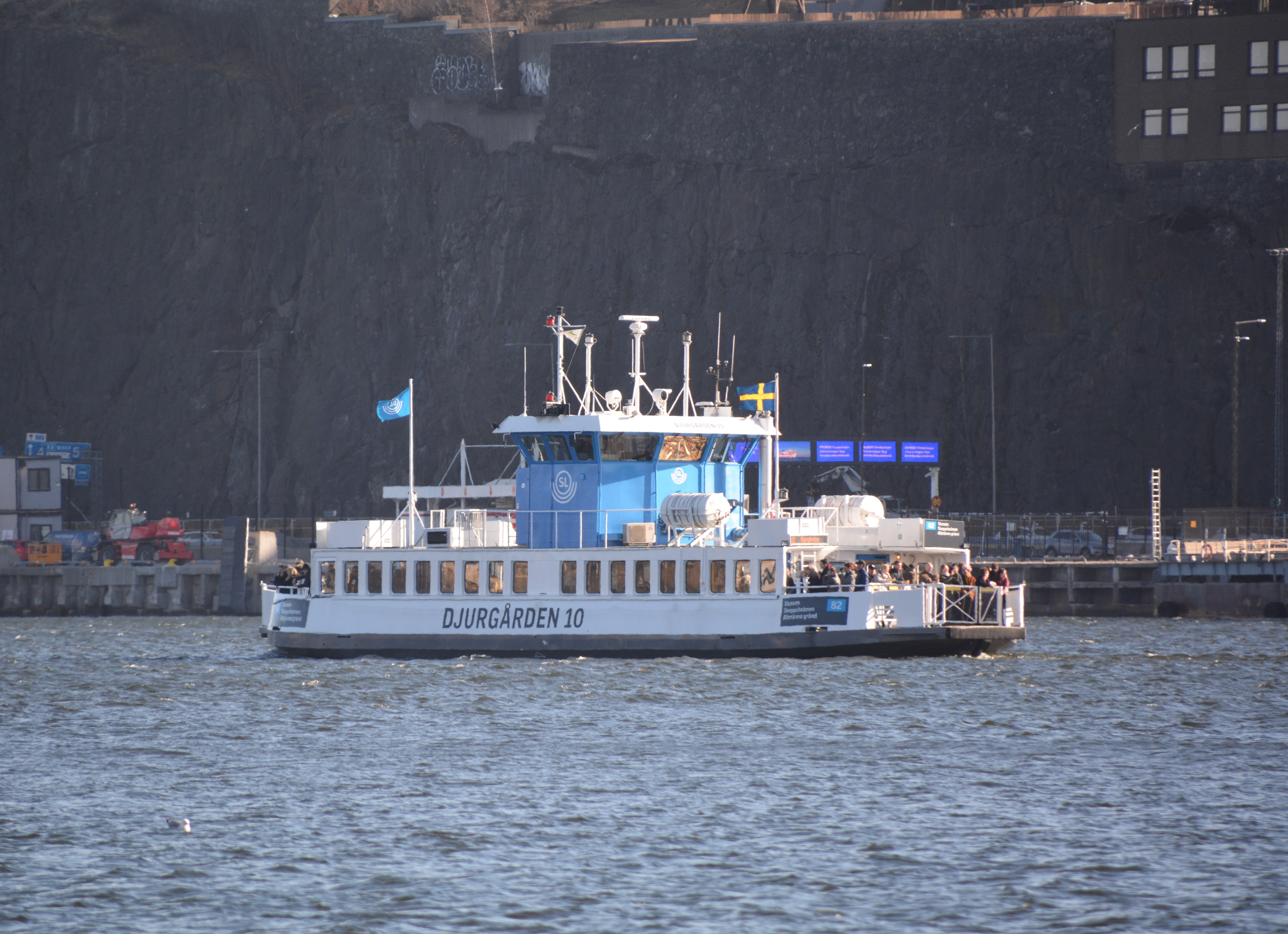 Passenger ferry Djurgården 10 in Stockholm